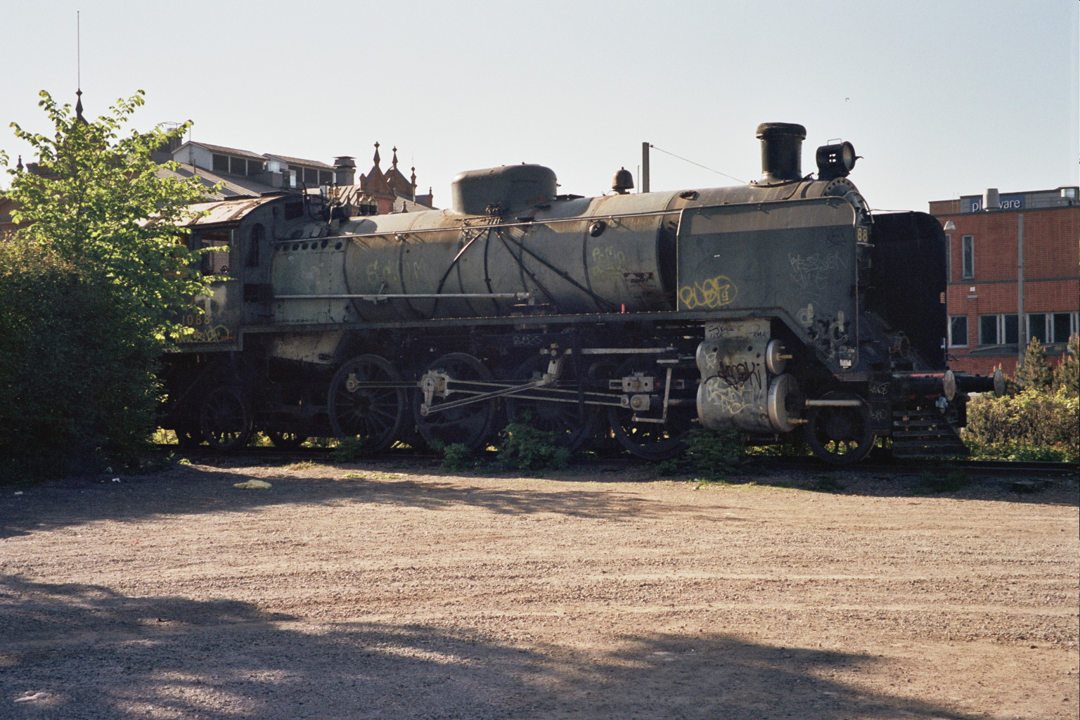 A Finnish steam locomotive, class Tr1, number 1088, near the railway station of Tampere in Finland. Moved to Toijala in 2009.